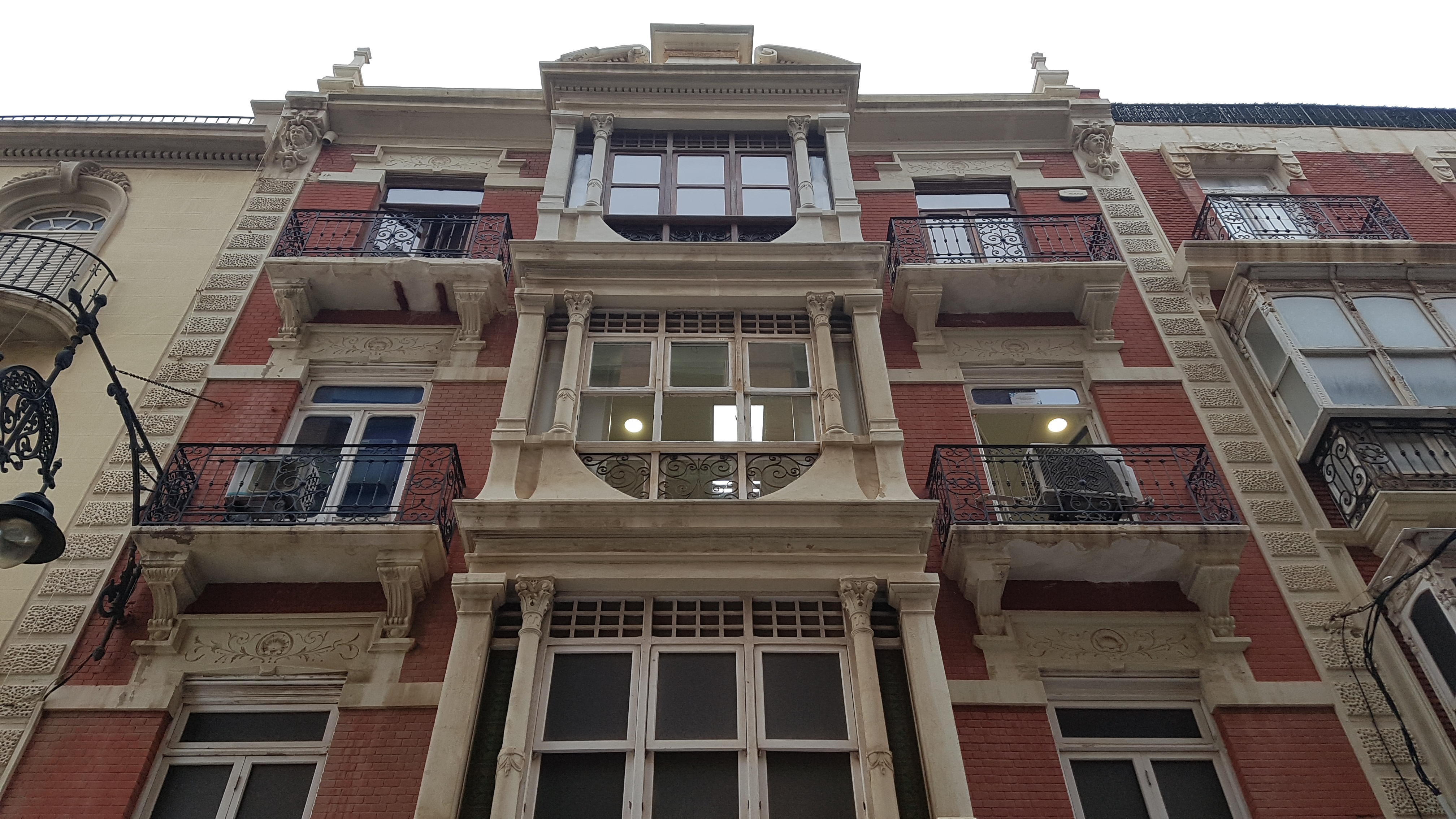 Front view of the facade of Casa Galiana, a residential building built by the Art Nouveau architect Víctor Beltrí in Cañón Street of Cartagena (Spain). The plans of the building are from 1927.